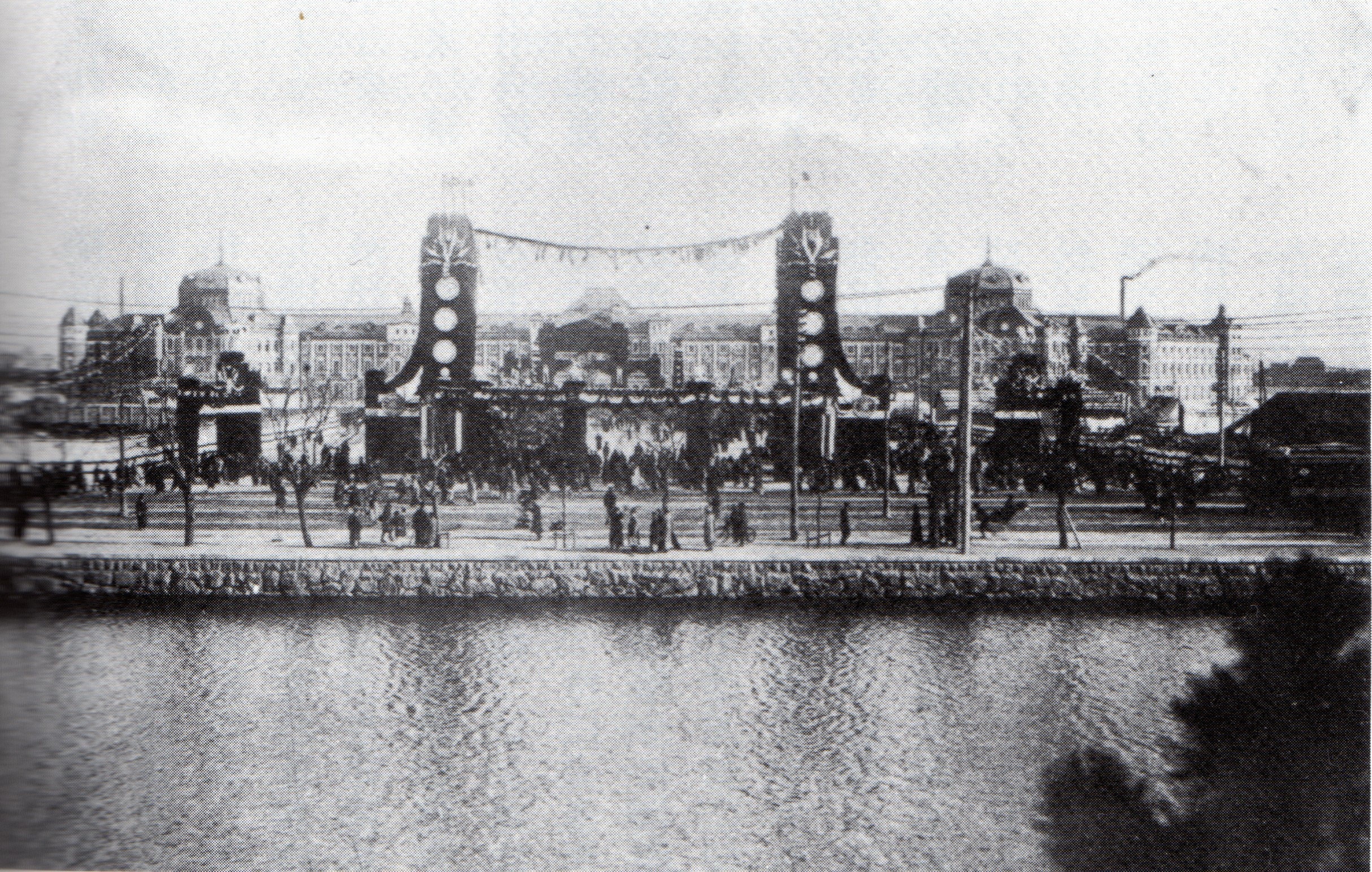 Tokyo station opening ceremony in 1914